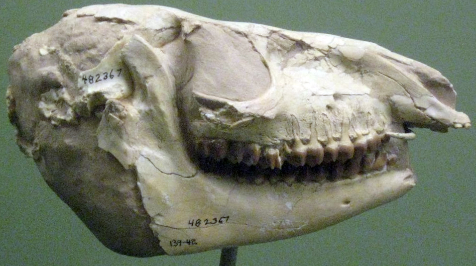 30 million years old Middle Oligocene